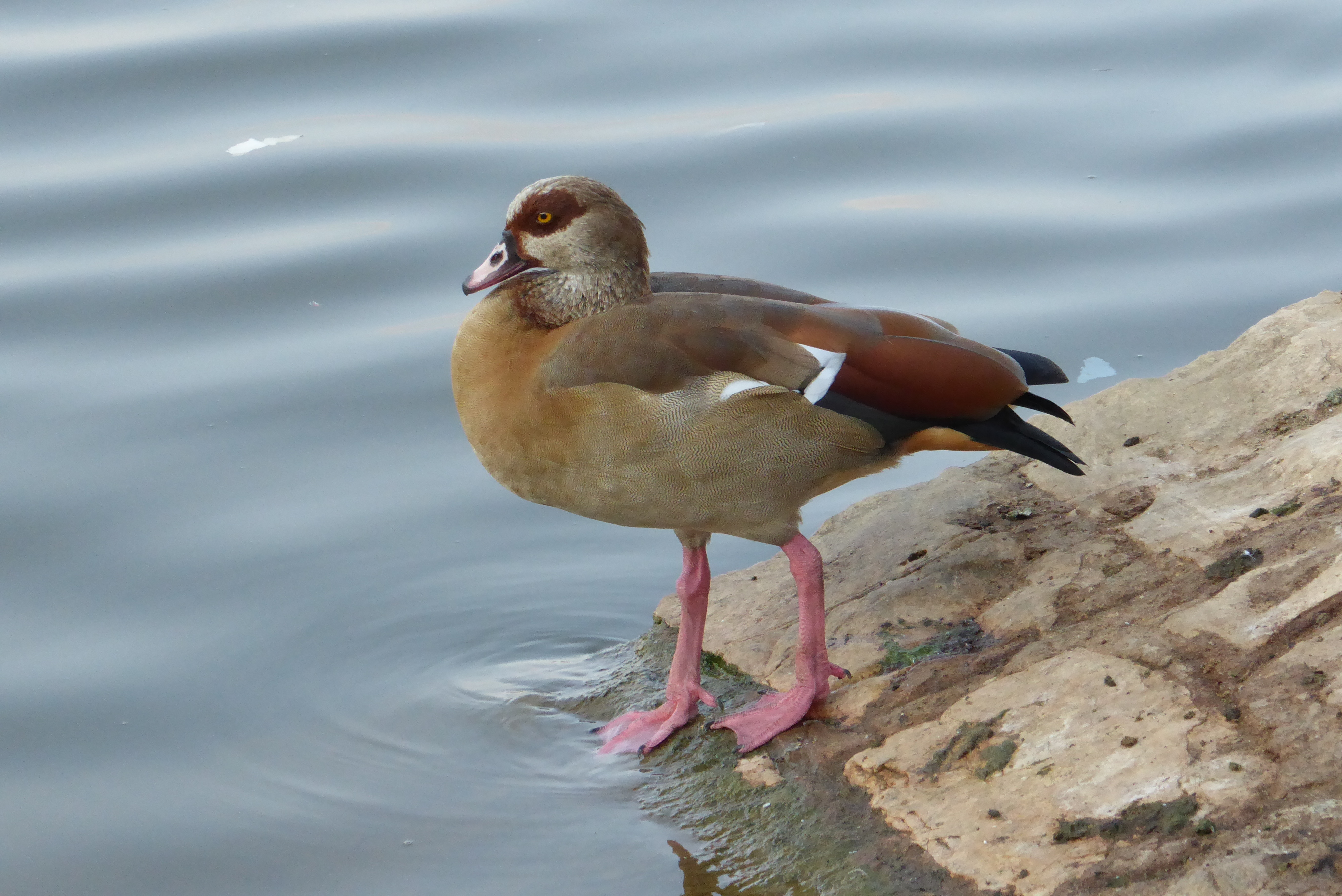 Birds of Ramat Gan, National Park, Ramat Gan